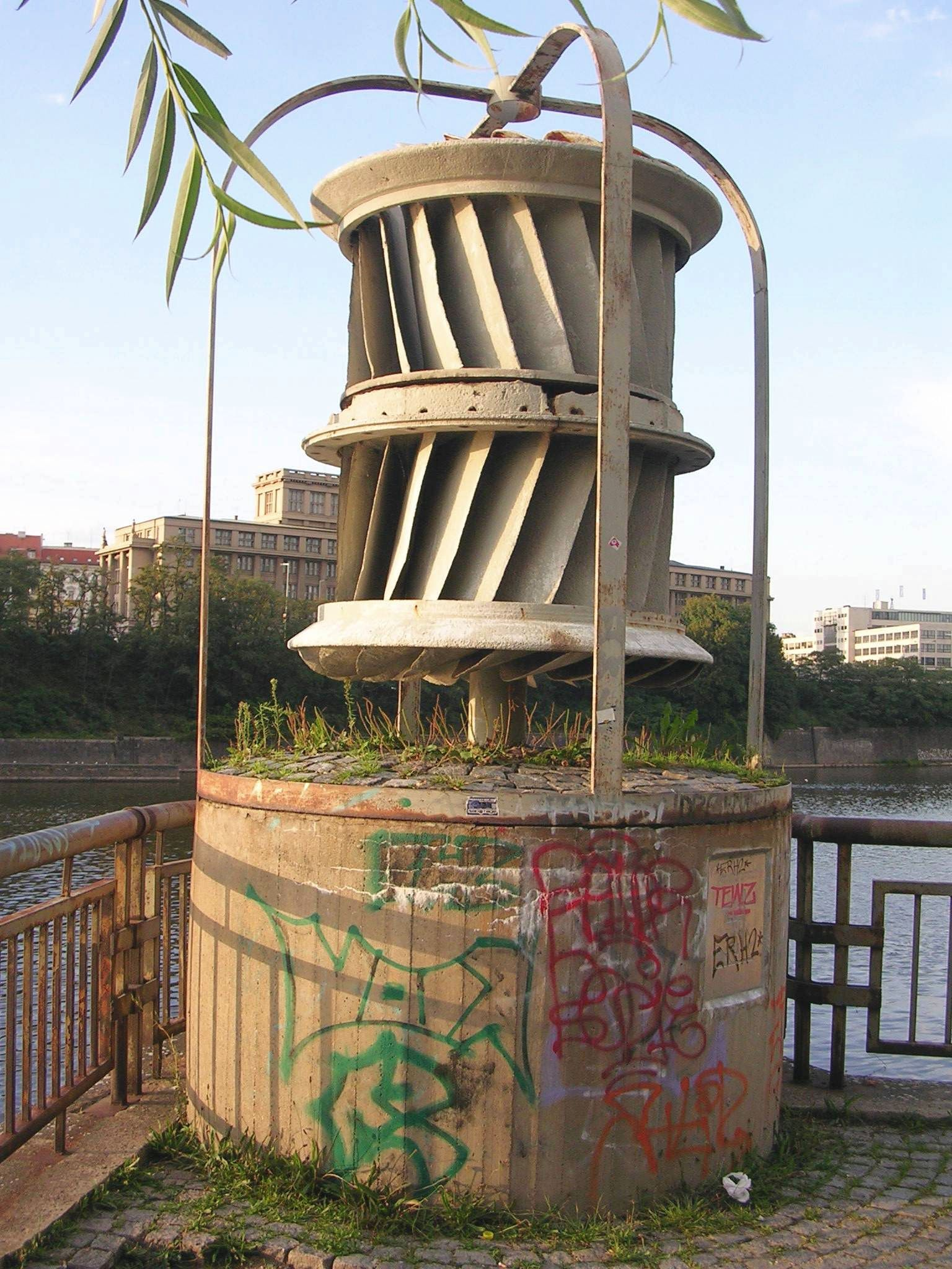 Prague, the Czech Republic. Štvanice Island. The old Francis-Turbine.